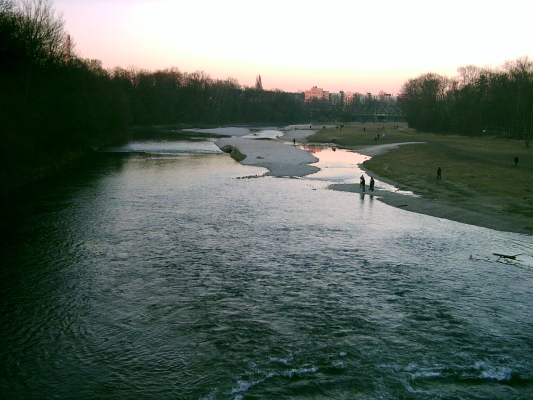 Isar River in Munich, view north from Brudermuehlbruecke